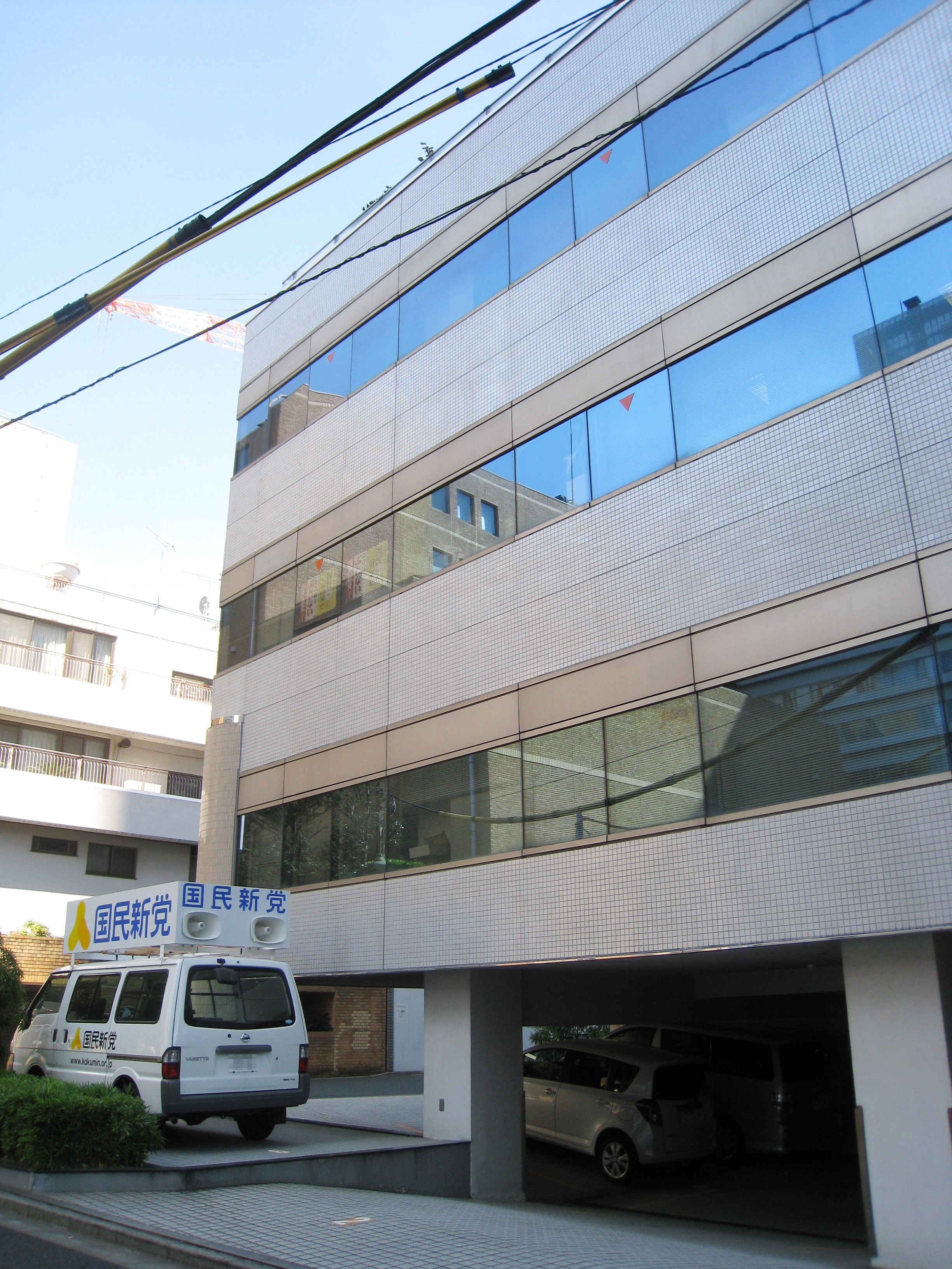 People's New Party (国民新党 Kokumin Shintō), located at Hirakawachō, Chiyda, Tokyo, Japan